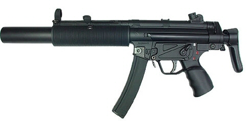 HK MP5 SD3 submachinegun with internal silencer, caliber: 9mm para